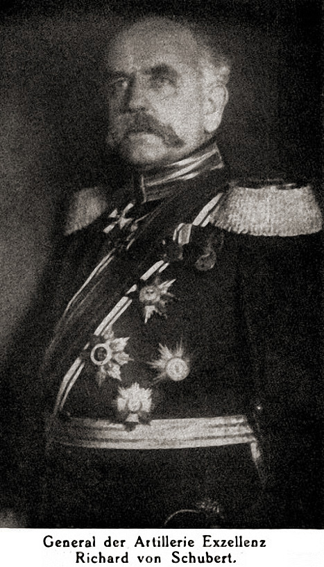 prussain general Richard von Schubert